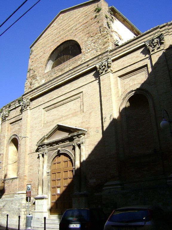 The church of St. Domenico to Atessa